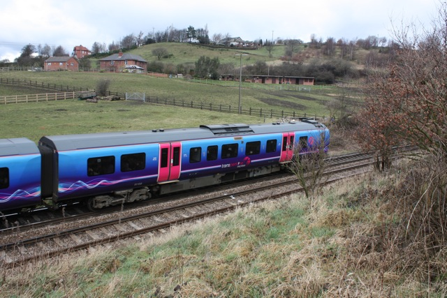 Manchester - Leeds Railway at Howley Park The train approaching Morley tunnel is the Trans-Pennine service heading for Scarborough